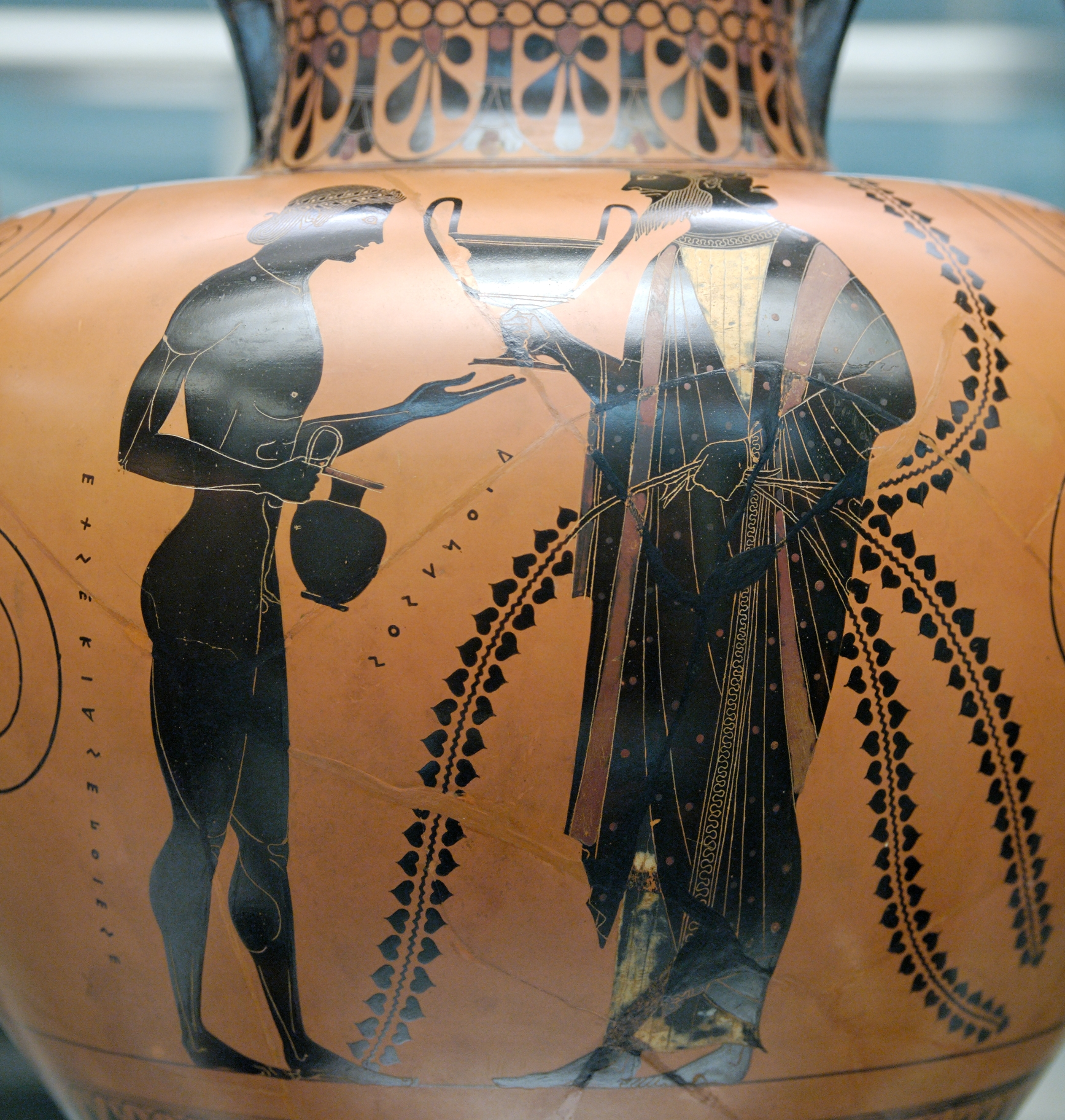 Dionysos with his son Oinopion, detail from an Attic black-figured amphora, ca. 540-530 BC. From Vulci, Etruria.